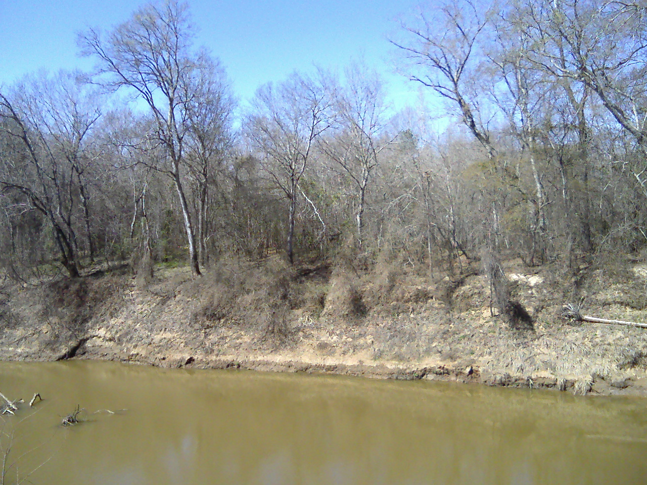 Sabine River off ol' River Road